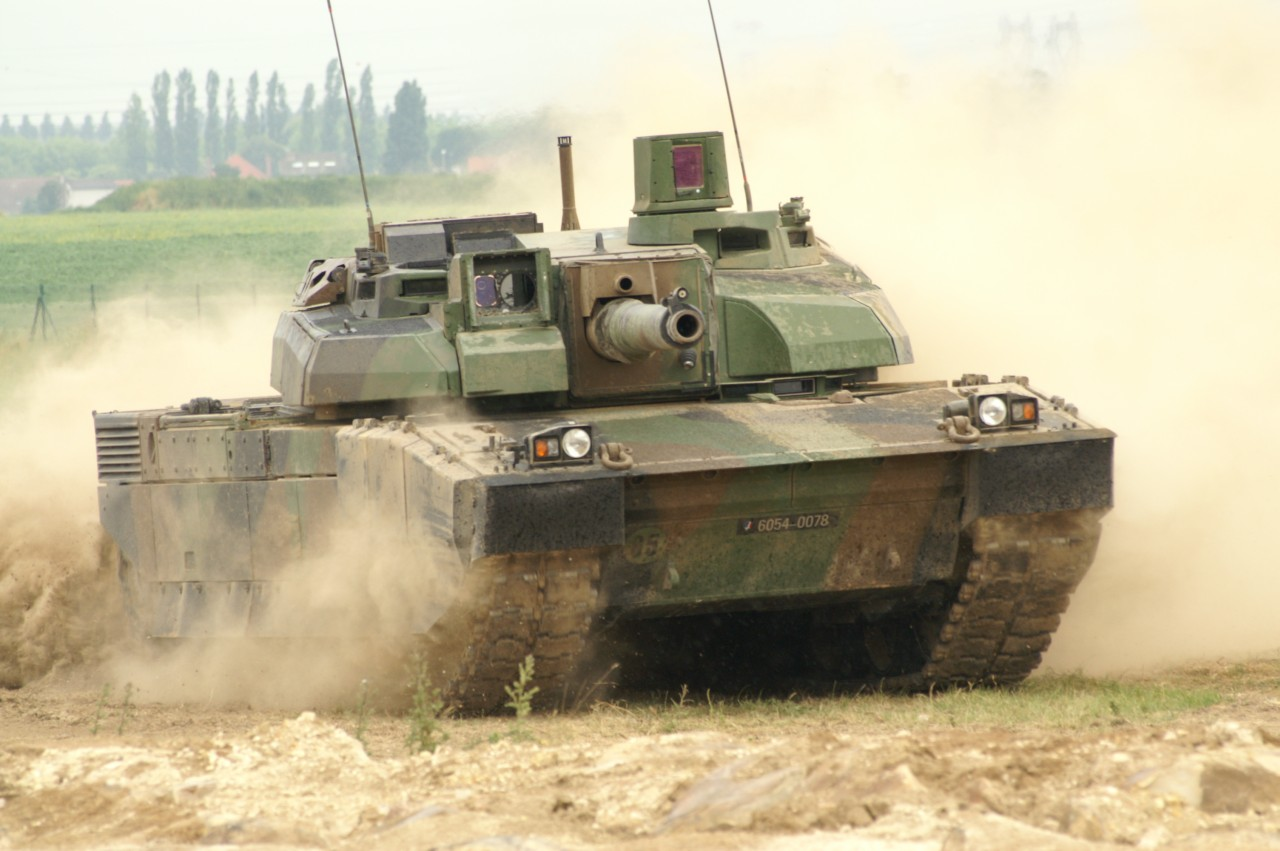 AMX-56 Nexter Leclerc moving.